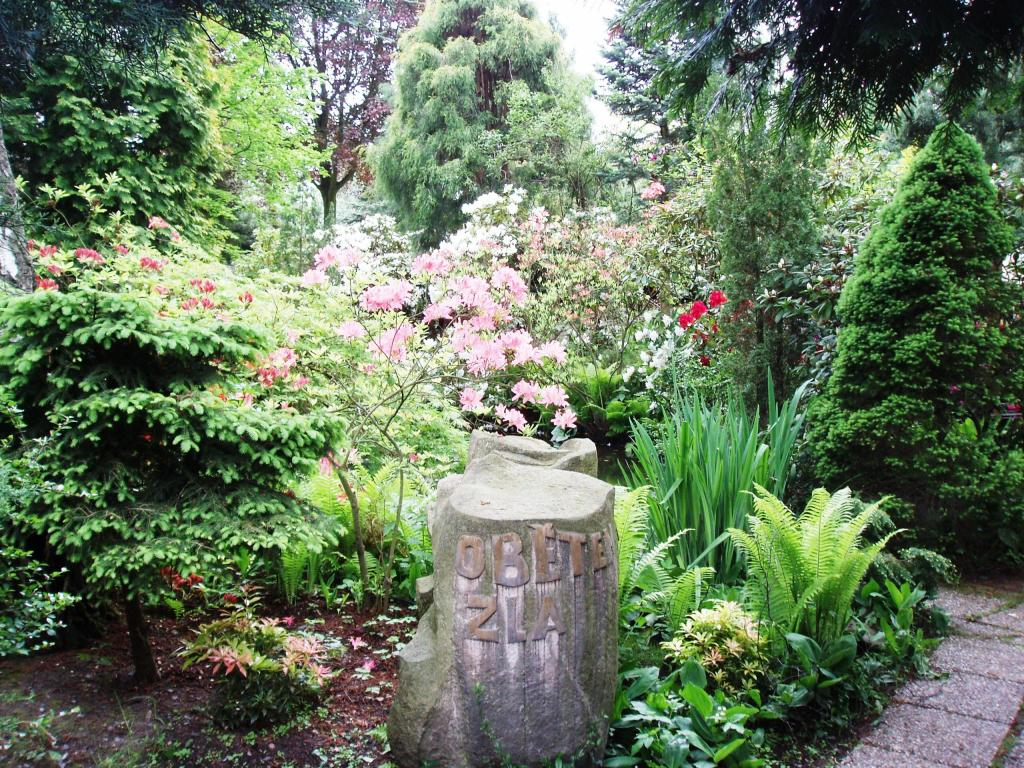 Entry to Meditační zahrada - Monument for victims of evil in Plzeň.